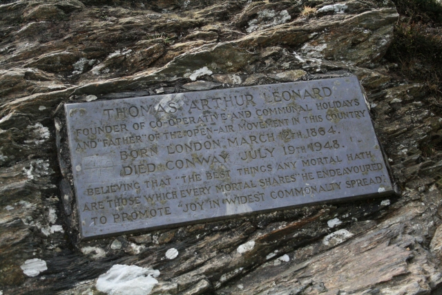 Memorial Plaque on Skelgill Bank Shortly after beginning an ascent of Cat Bells a walker will come across this plaque on Skelgill Bank dedicated to the memory of Thomas Arthur Leonard. The plaque reads: Thomas Arthur Leonard. Founder of Co-Operative and Communal Holidays and "father" of the open-air movement in this country. Born London March 12th 1864. Died Conway July 19th 1948. Believing that "the best things any mortal hath are those which every mortal shares" he endeavoured to promote "joy in widest commonality spread." T.A. Leonard was the Minister of a Congregational Chapel in Colne, Lancashire who began in 1891 to organise holidays for the local mill people. This led to the formation in 1892 of the Co-operative Holidays Association which set out 'to provide recreative and educational holidays by purchasing or renting and furnishing houses and rooms in selected centres, by catering in such houses for parties of members and guests, and by securing helpers who will promote the intellectual and social interests of the party with which they are associated'. The first property, the Abbey House at Whitby, was leased in 1896. The Co-operative Holidays Association later became the Countrywide Holidays Association (CHA). In 1913 the Holiday Fellowship was formed, also at the instigation of Arthur Leonard who wished to extend the work of the Co-operative Holidays Association of which he was then General secretary. This was intended as a companion organisation to the CHA. Goodwill between the two organisations continues to this day. Many of those connected with the foundation and early years of the CHA have also been closely involved with the setting up of other well known organisations connected with rambling and the countryside.